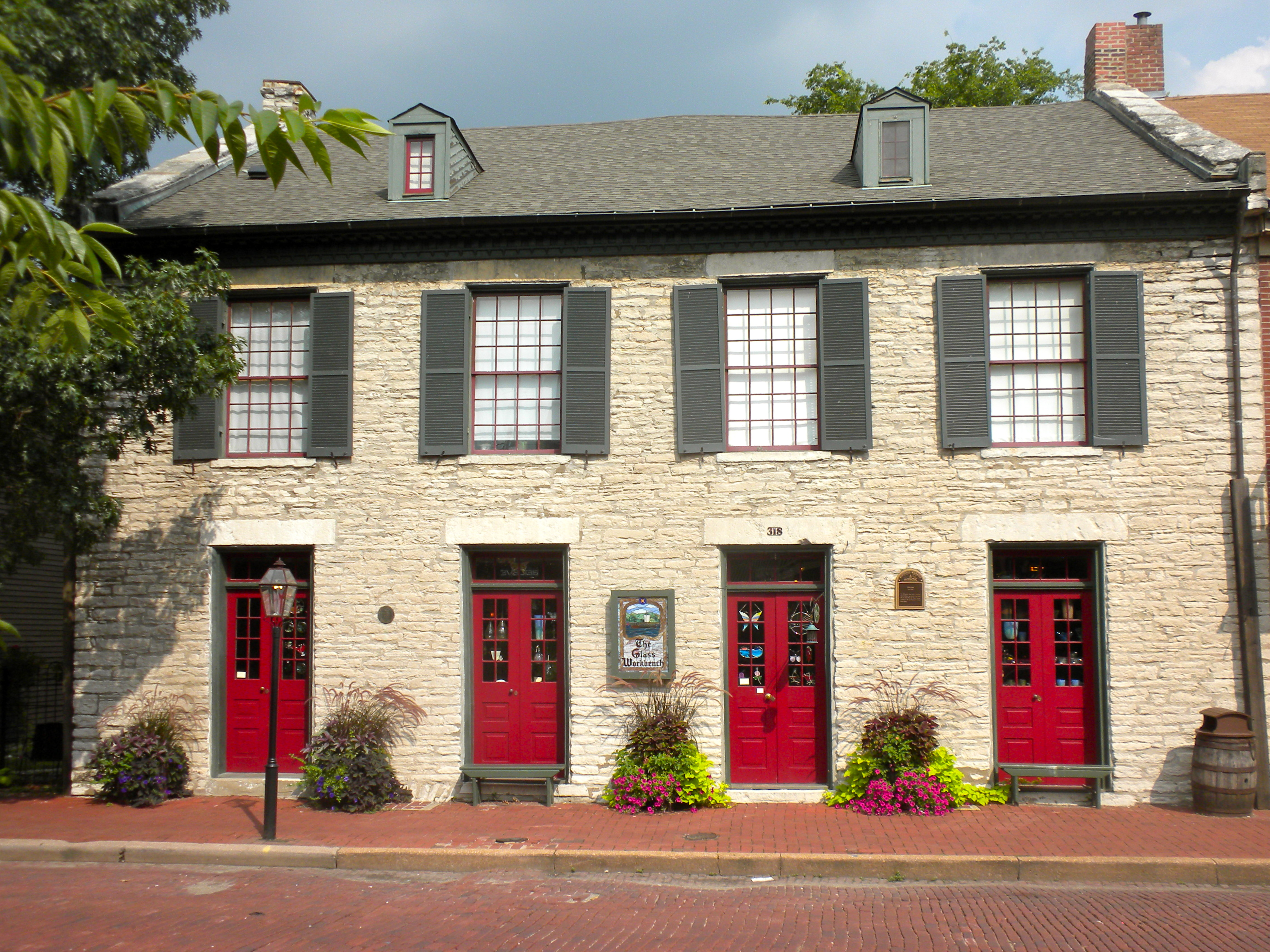 318 S. Main Street, St. Charles, Missouri. Part of Stone Row on the NRHP since July 29, 1969. Houses on listing are 314-330 S. Main St., St. Charles